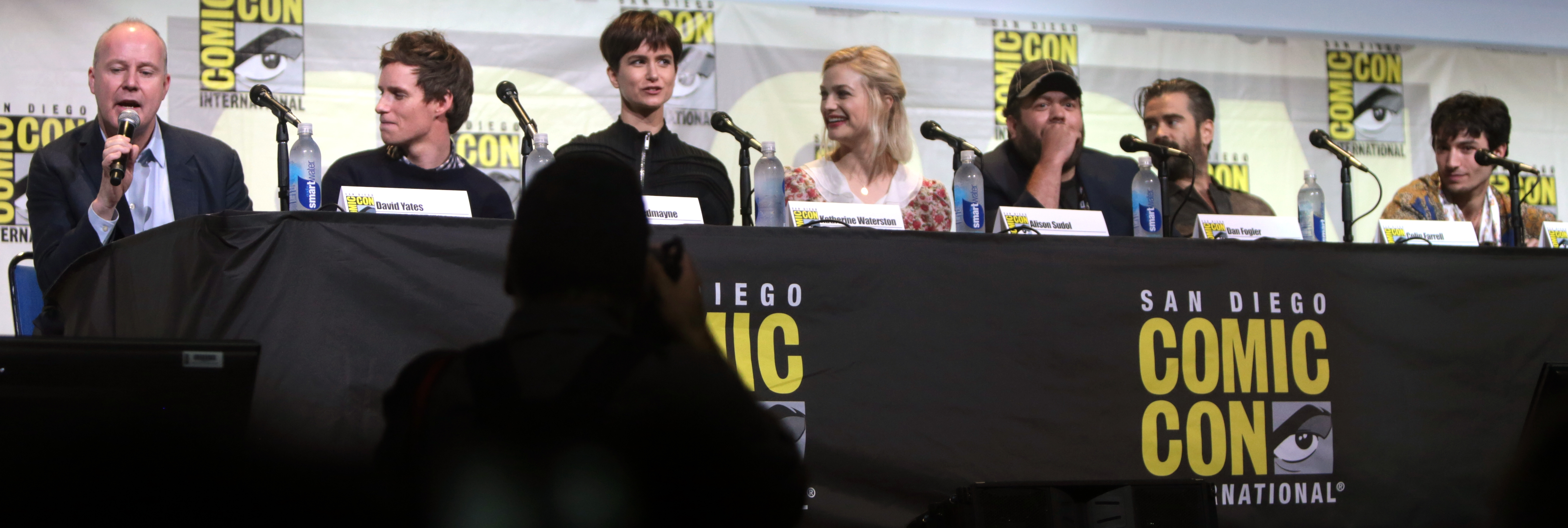 David Yates, Eddie Redmayne, Katherine Waterston, Alison Sudol, Dan Fogler, Colin Farrell and Ezra Miller speaking at the 2016 San Diego Comic Con International, for "Fantastic Beasts and Where to Find Them", at the San Diego Convention Center in San Diego, California.